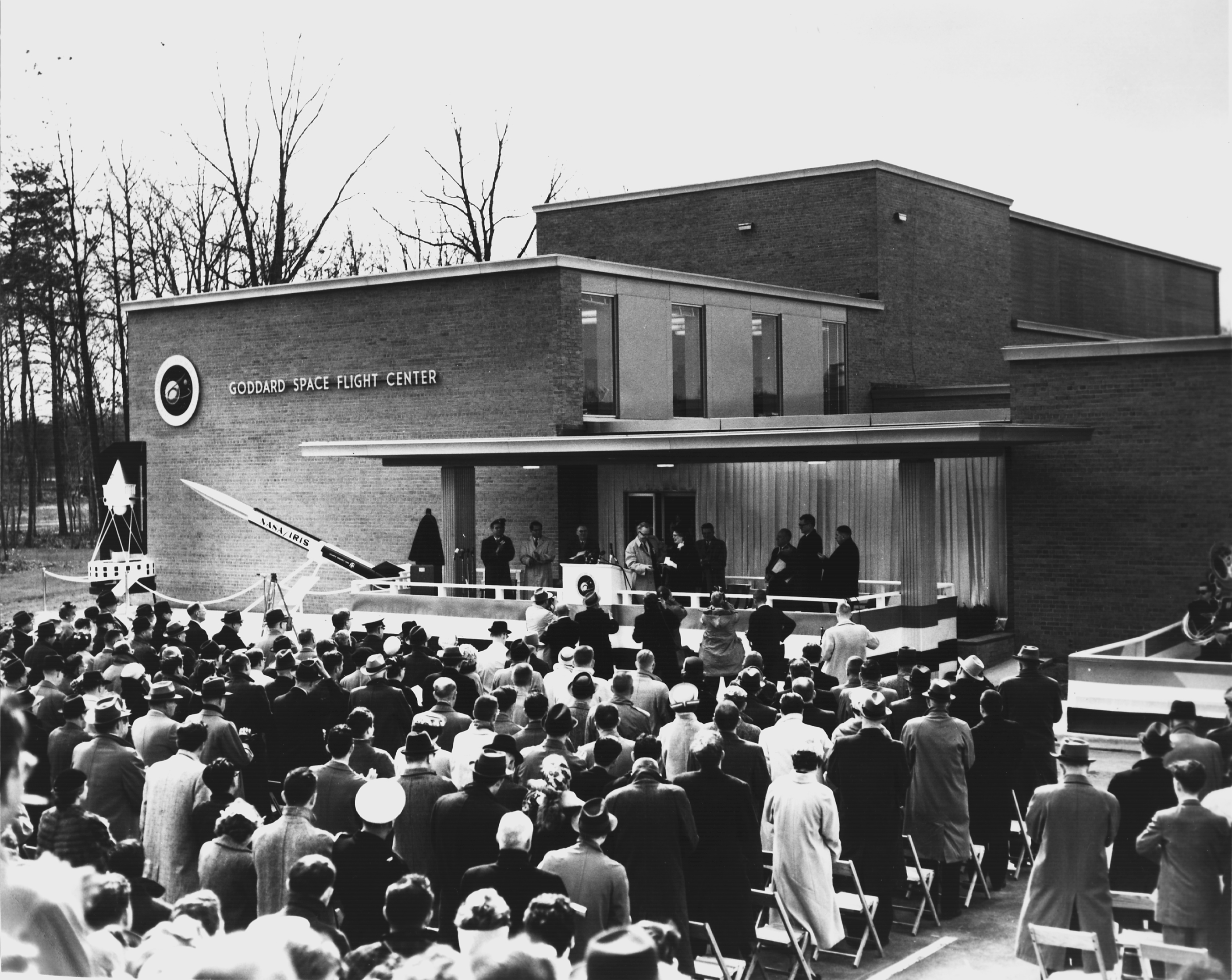 By March 16, 1961, enough work had been completed to formally dedicate the new NASA research center named in honor of America's great rocket innovator, Robert H. Goddard. Before the dedication ceremony actually took place, though, Goddard's always innovative employees were once again put to the test. A week before the event, the Secret Service told Goddard's Director of Administration, Mike Vaccaro, that he had to install a fence because President Kennedy might attend the dedication, and the campus was not secure. Although it rained for a week, Vaccaro found a contractor who worked 24 hours a day in the rain and mud cutting down trees and installing a chain link fence. But Vaccaro's troubles did not end there. Someone then noticed the Center did not have a flagpole. Vaccaro had three days to find one and still comply with government procurement regulations. An employee located a flagpole at a school that was closing down, and Vaccaro wrote a specification that described the pole so precisely that only the school could fit the bill. Workers moved the flagpole to the entrance gate?where it still stands today.